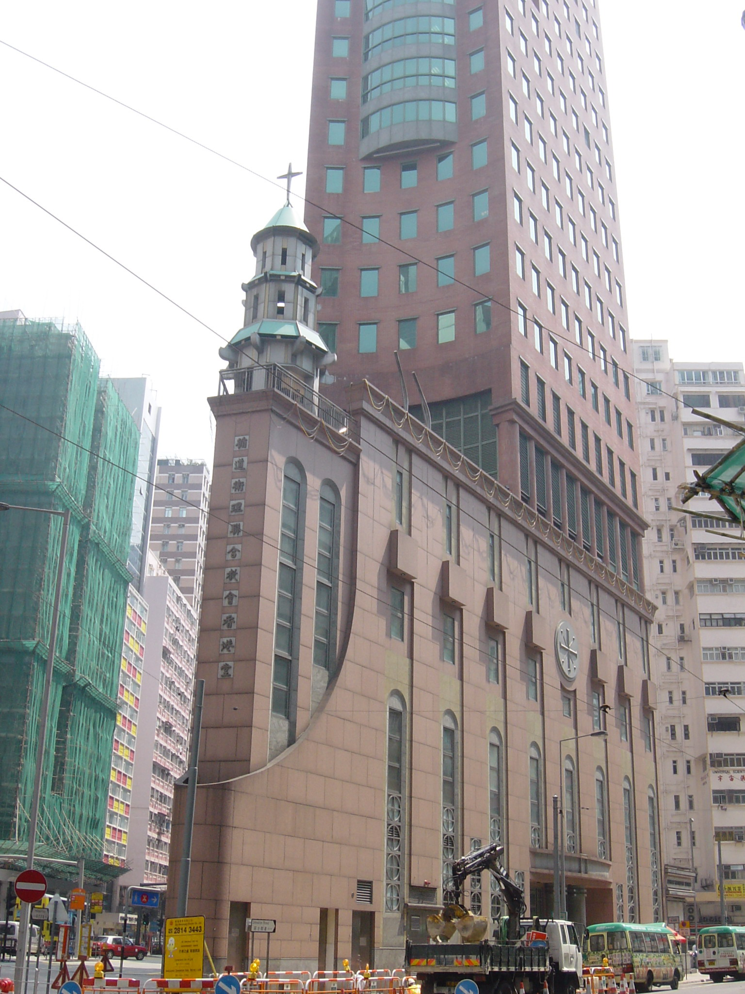 香港循道衛理香港堂。Methodist House, Johnston Road, Wan Chai, Hong Kong.